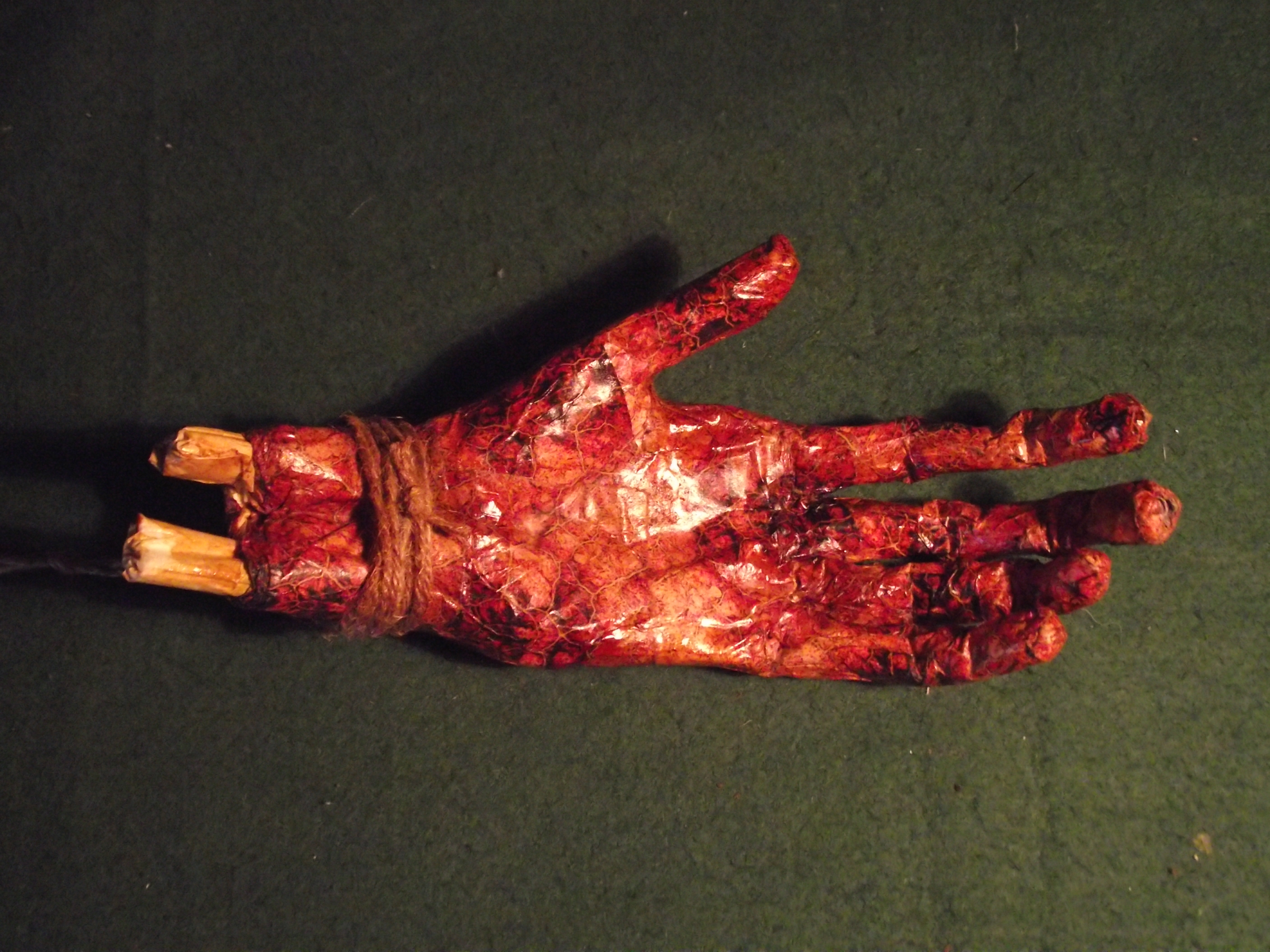 A paper mache facsimile sculpture of a Folklore Superstition/belief tool, 'Hand of Glory' created by Kuriologist. Sculpture previously exhibited - 'From Behind Closed Doors' - exhibition 2017 at Helston Museum in Cornwall. Photo is sculptural artists own work.